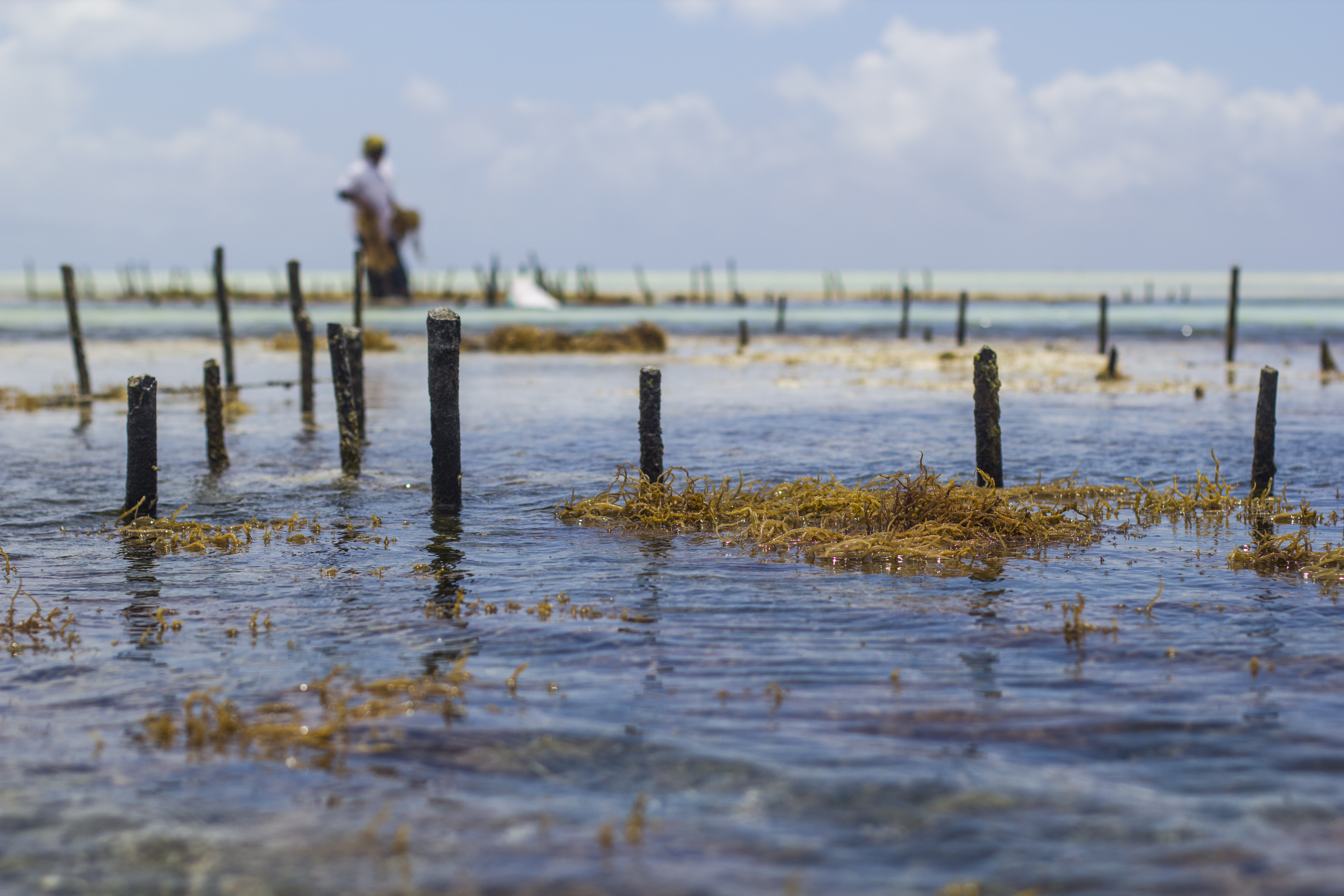 The seaweed grows underwater for 45 days. When it reaches one kilogram, the women pick it and dry it, then pack it in bags to be exported to countries like China, Korea and Vietnam. There, it's used in medicines and shampoos. This is an image of "African people at work" from Tanzania